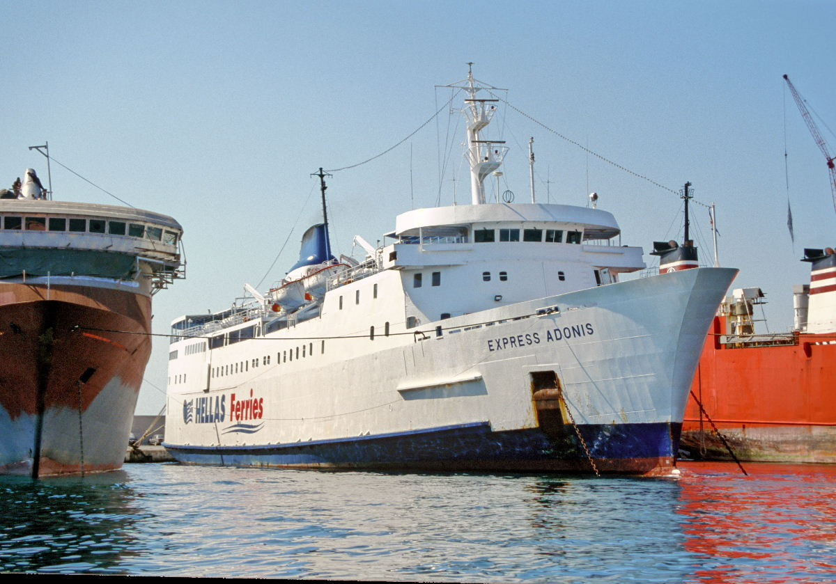 The ferry Express Adonis laid up in Perama in 2005.